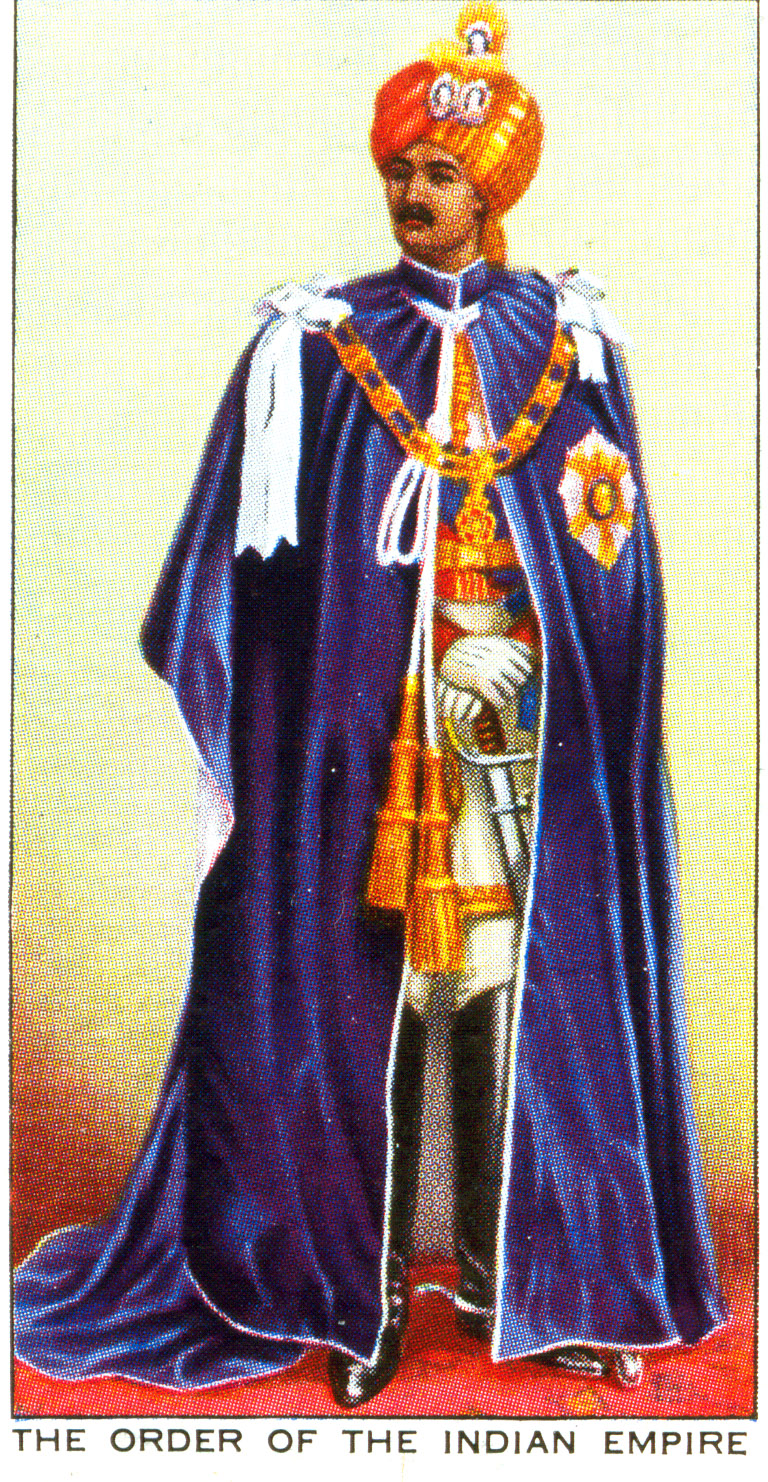 Player's cigarettes. Coronation series, ceremonial dress